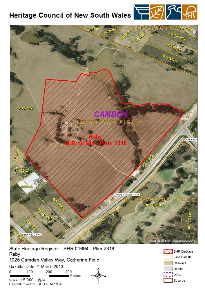 Raby, Catherine Field: SHR Plan 2318